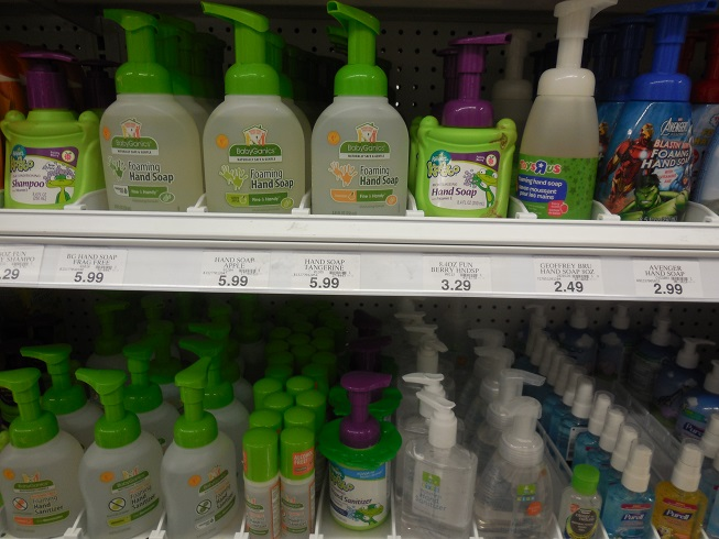 Foaming Handsoap at Babies R Us